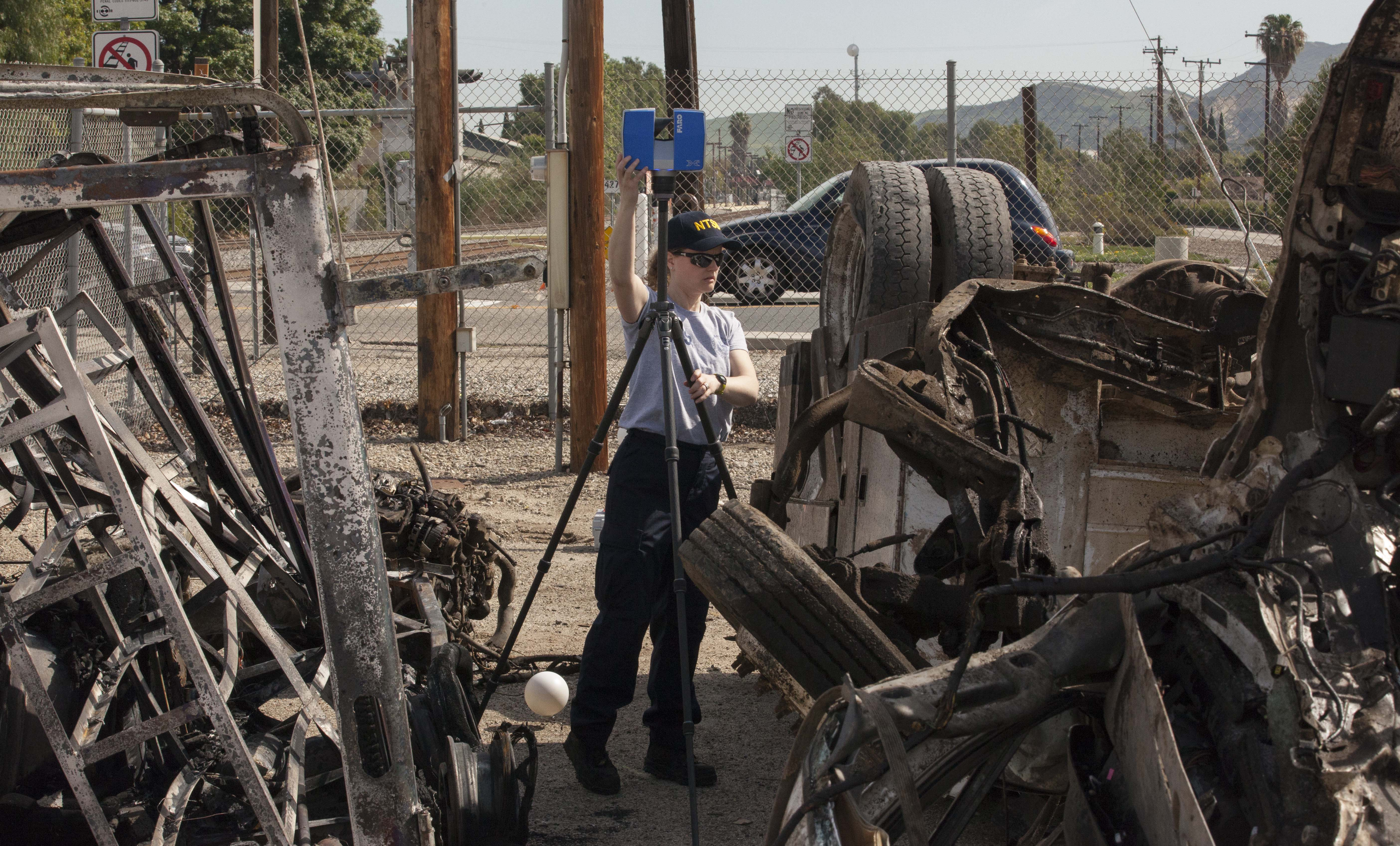 NTSB Mechanical Engineer Kristin Poland uses laser scanner to capture a 3-D image of the truck involved in CA grade crossing accident.